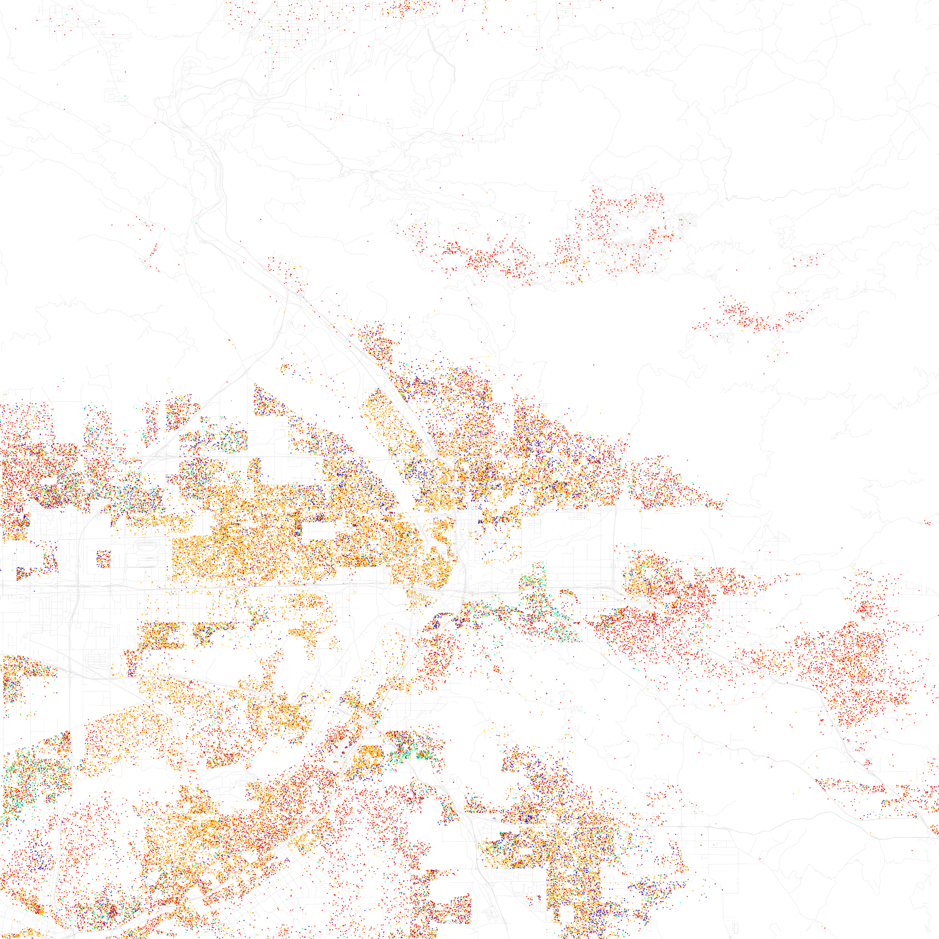 Maps of racial and ethnic divisions in US cities, inspired by Bill Rankin's map of Chicago, updated for Census 2010. Red is White, Blue is Black, Green is Asian, Orange is Hispanic, Yellow is Other, and each dot is 25 residents. Data from Census 2010. Base map © OpenStreetMap, CC-BY-SA